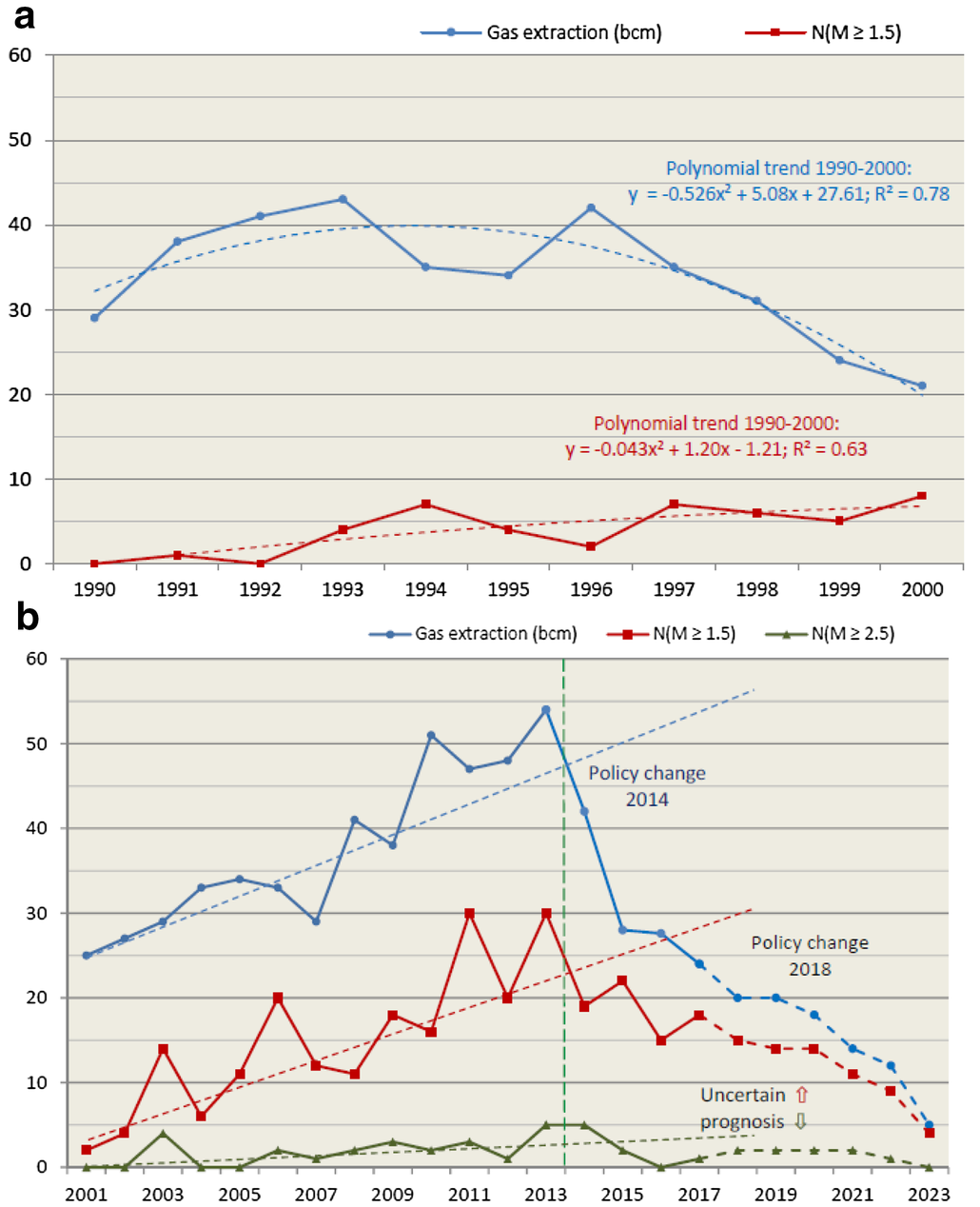 Original figure caption: a, b Annual gas extraction (bcm; upper curve) versus annual number (N) of earthquakes with M ≥ 1.5 and ≥ 2.5 (Richter; lower curves). The ordinate (y) fits both annual bcm and earthquake frequency. Basic data from NAM (2016a, 2018) and KNMI (2018). Statistical trends (dashed) over time have been separately fitted for periods 1990–2000 (a) and 2001–2013 (b), excluding 2014–2018.